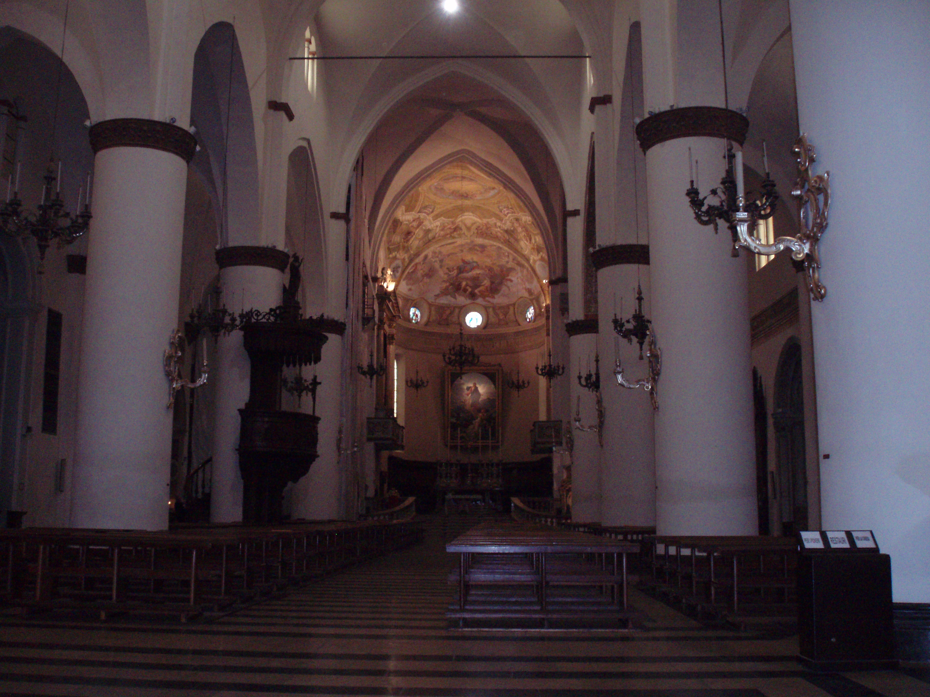 An internal view of the church of Santa Maria delle Grazie, Cortemaggiore, Italy.